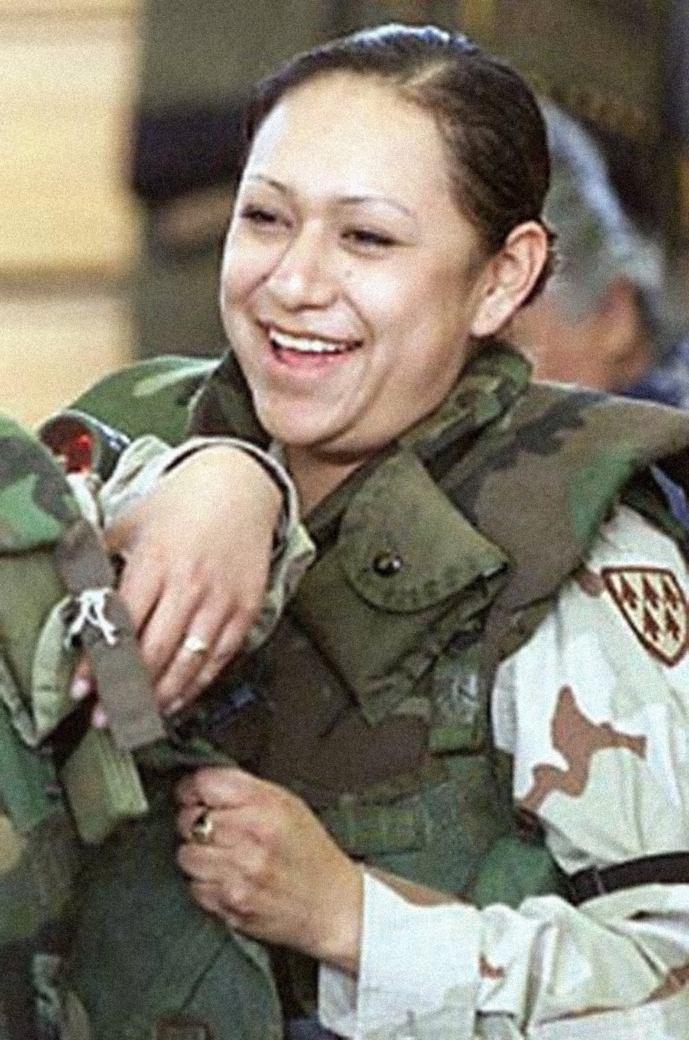 Lori Piestewa -- 1st American Indian female GI to die in combat